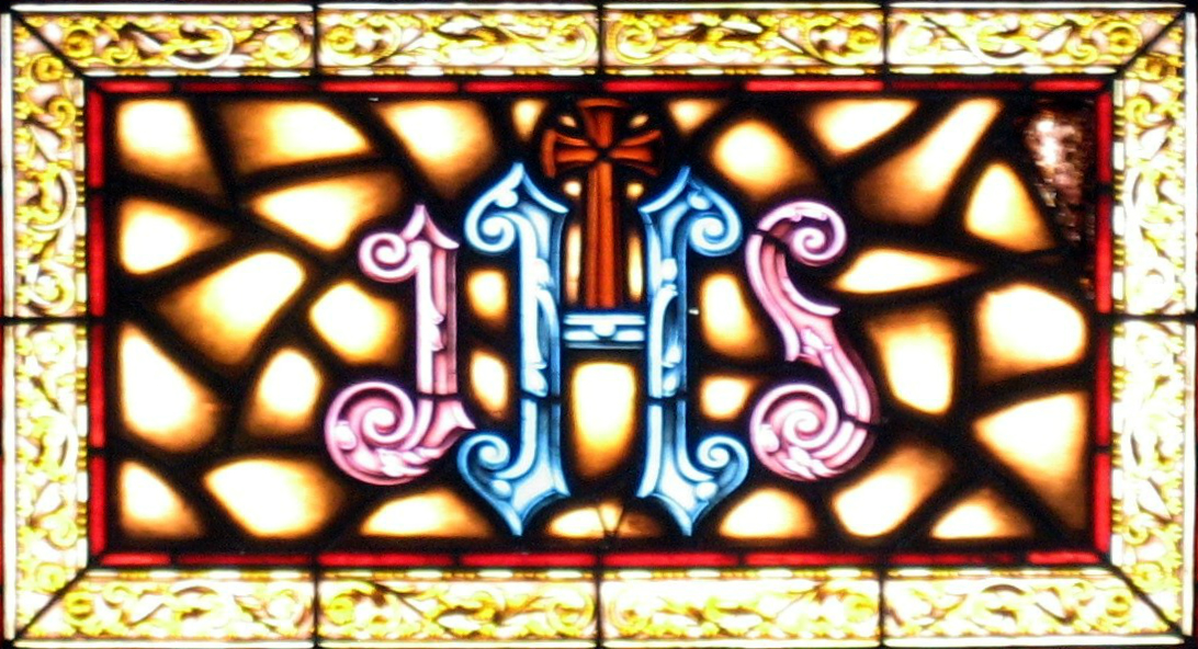 Stained glass window in the San José de Jatibonico Church sanctuary, in Jatibonico, Cuba.